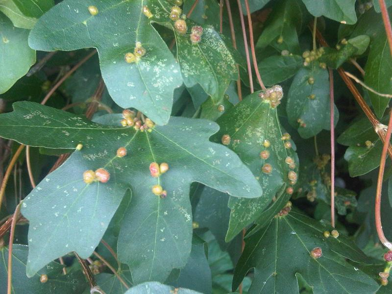 Field Maple (Acer campestre) leaf gall caused by the mite Aceria macrochela in Putney Heath Common, England.